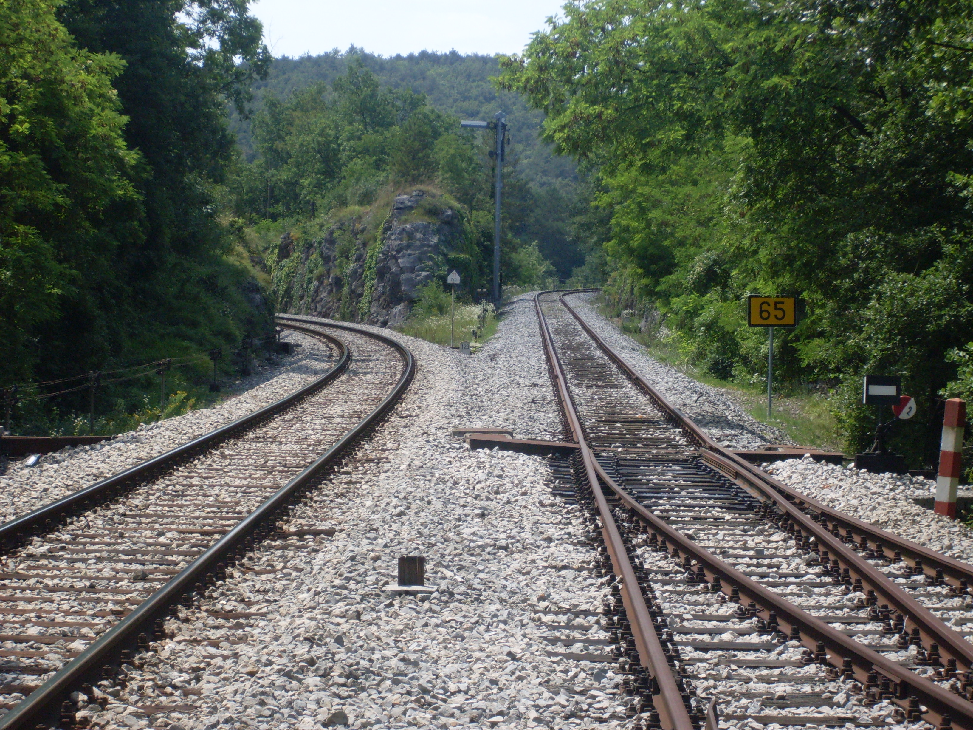 Railway junction in Kreplje. Split of the original Bohinj railway towards Villa Opicina and Trieste (right) and towards Sežana (left, built in 1948)